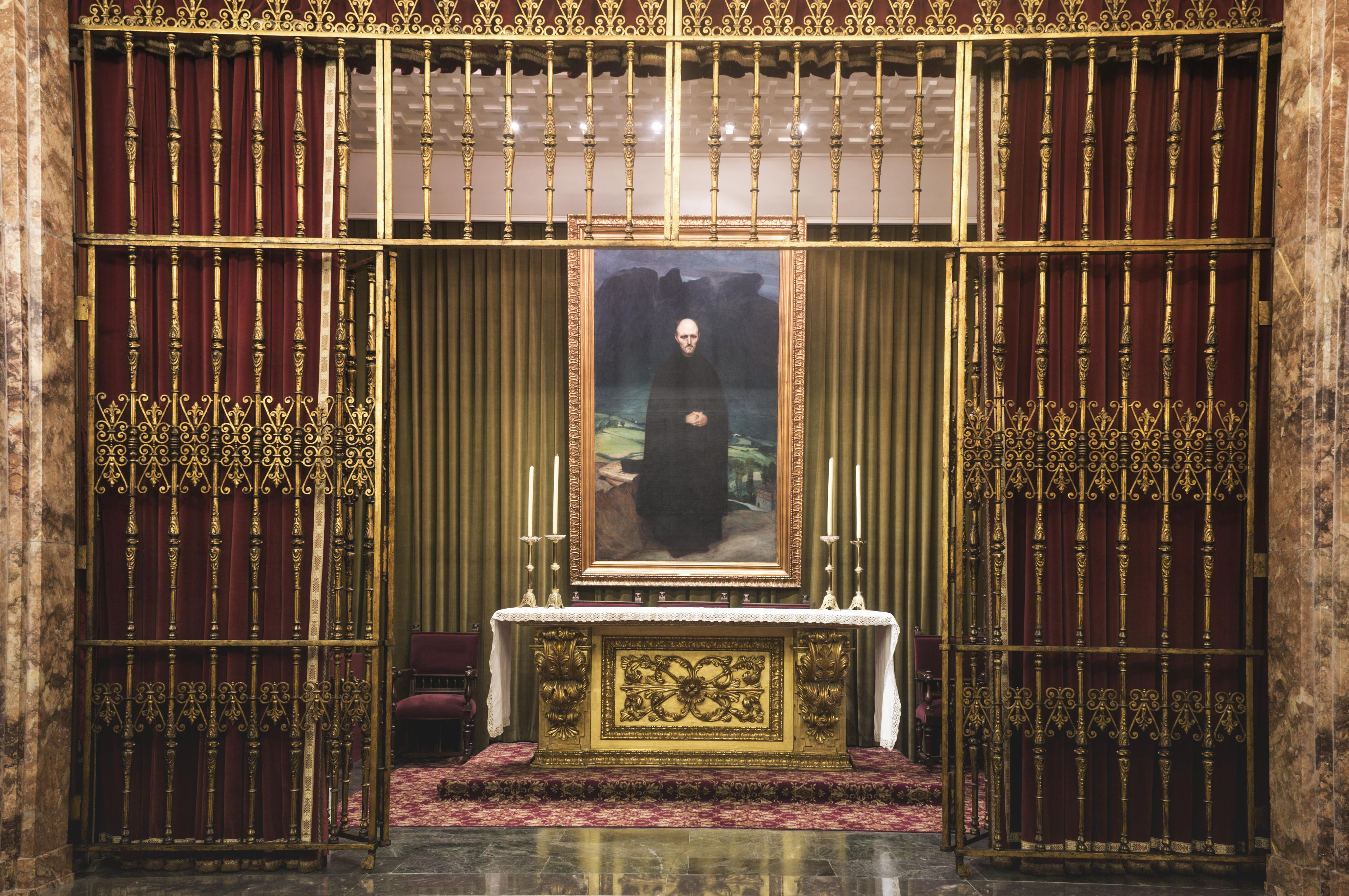 Chapel